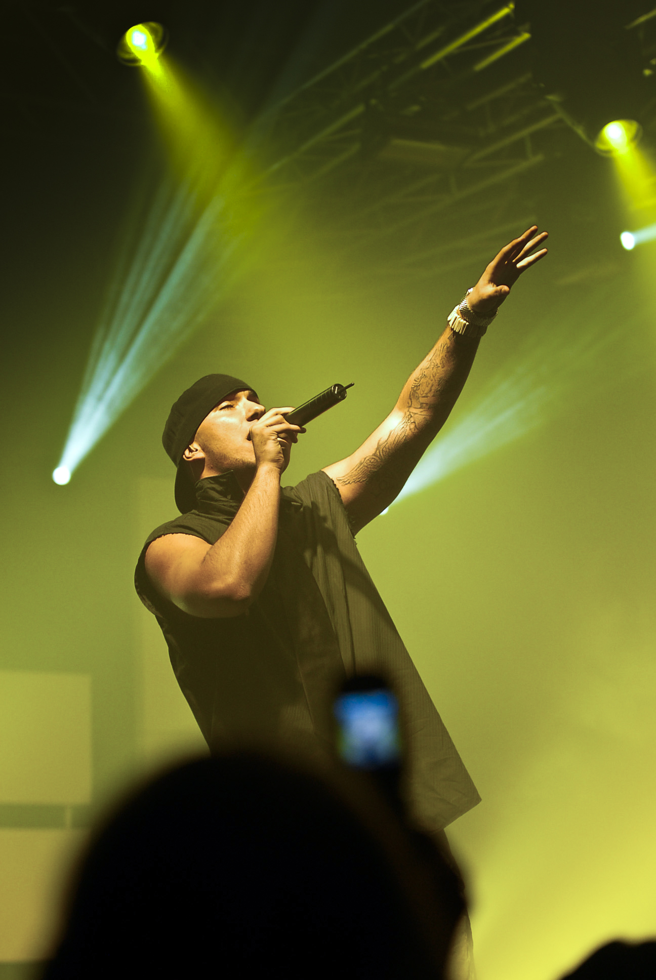 Joey Moe (danish artist) performing at Danish DJ Awards 2007